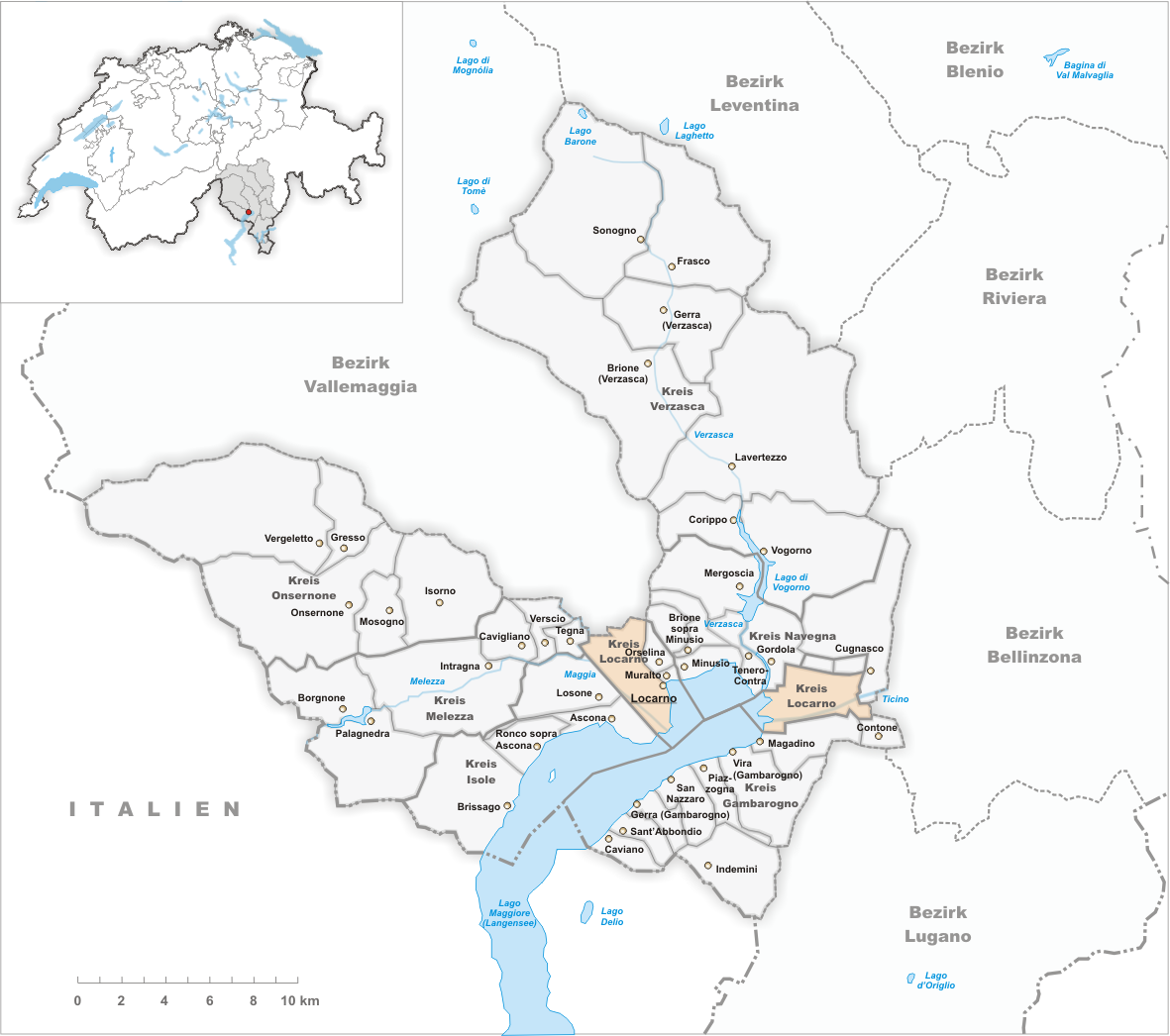 Municipality Locarno